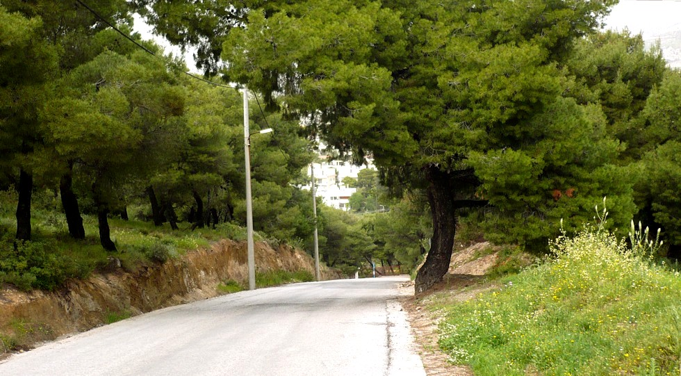 The above picture depicts the Vrilissia suburban forest.